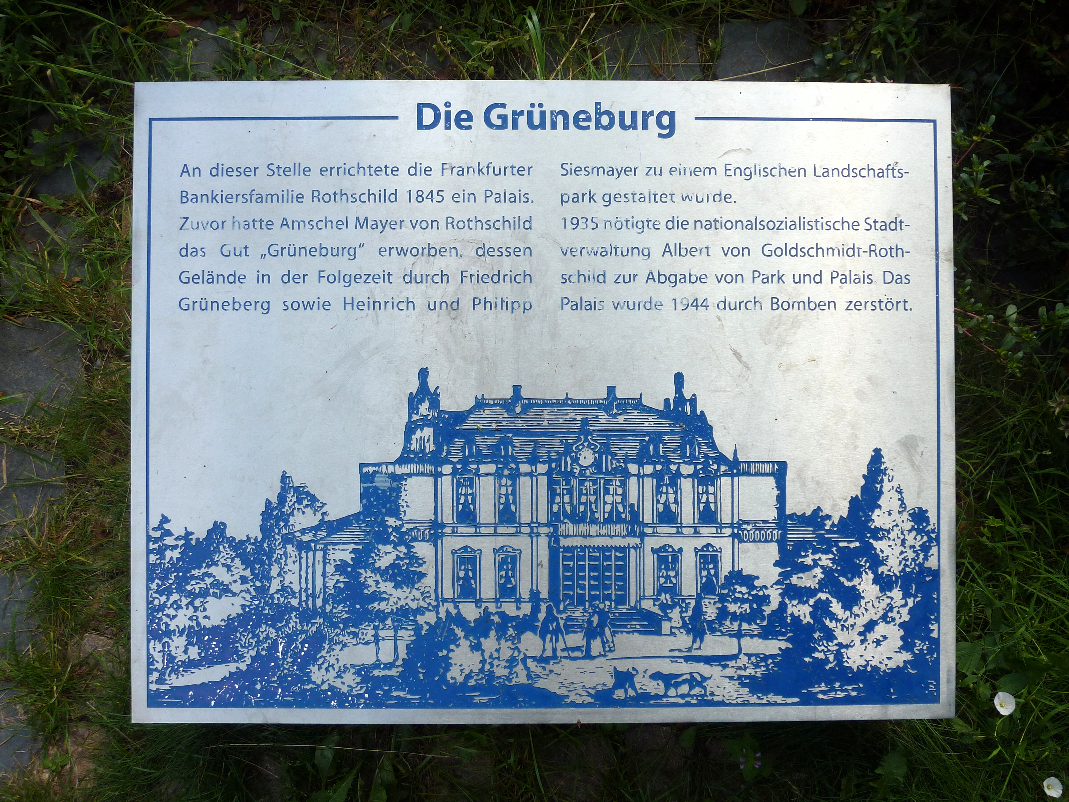 Frankfurt/M., Germany: Memorial plaque in the place of the Grüneburg Palais, mansion or country house of the Rothschild family, built in 1845, destroyed in a bombing raid in 1944